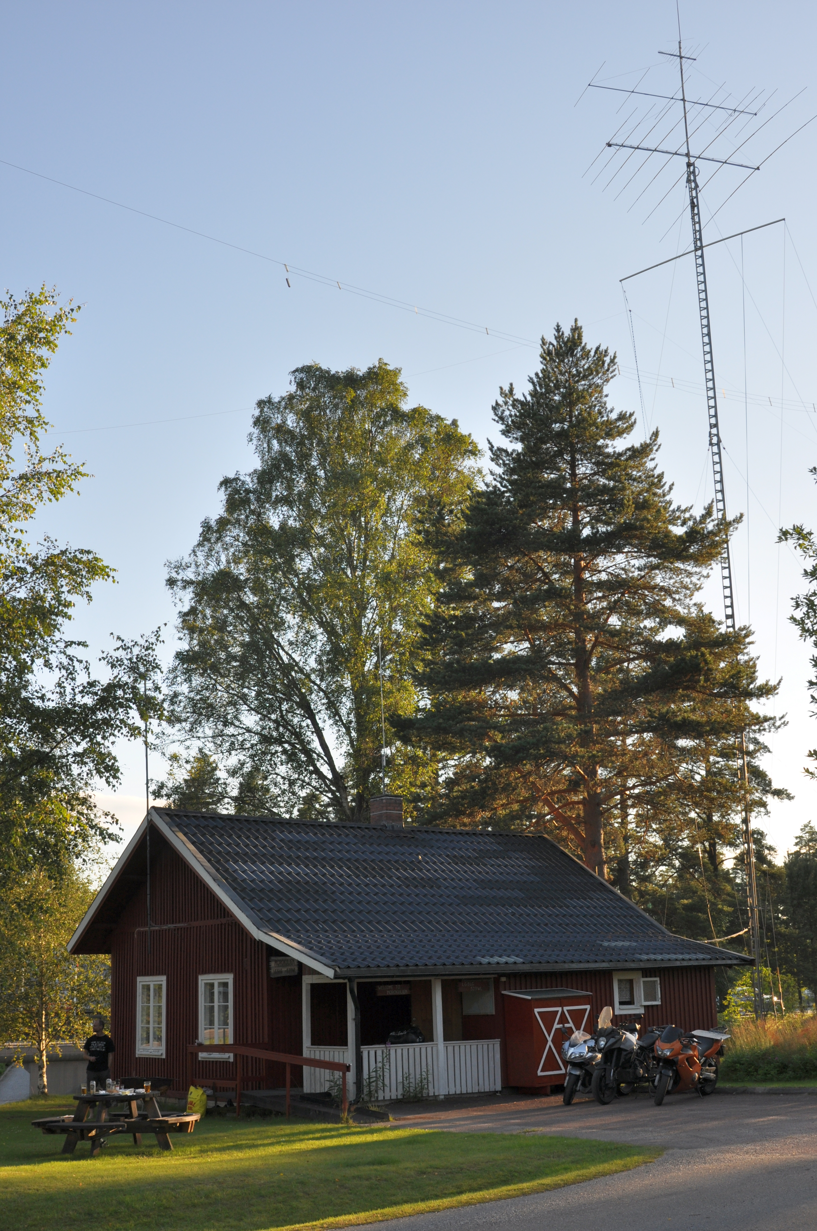 The shack can be used by any licensed radio operator. Because Morokulien is on Swedish and Norwegian territory, both call signs have to be switched daily.